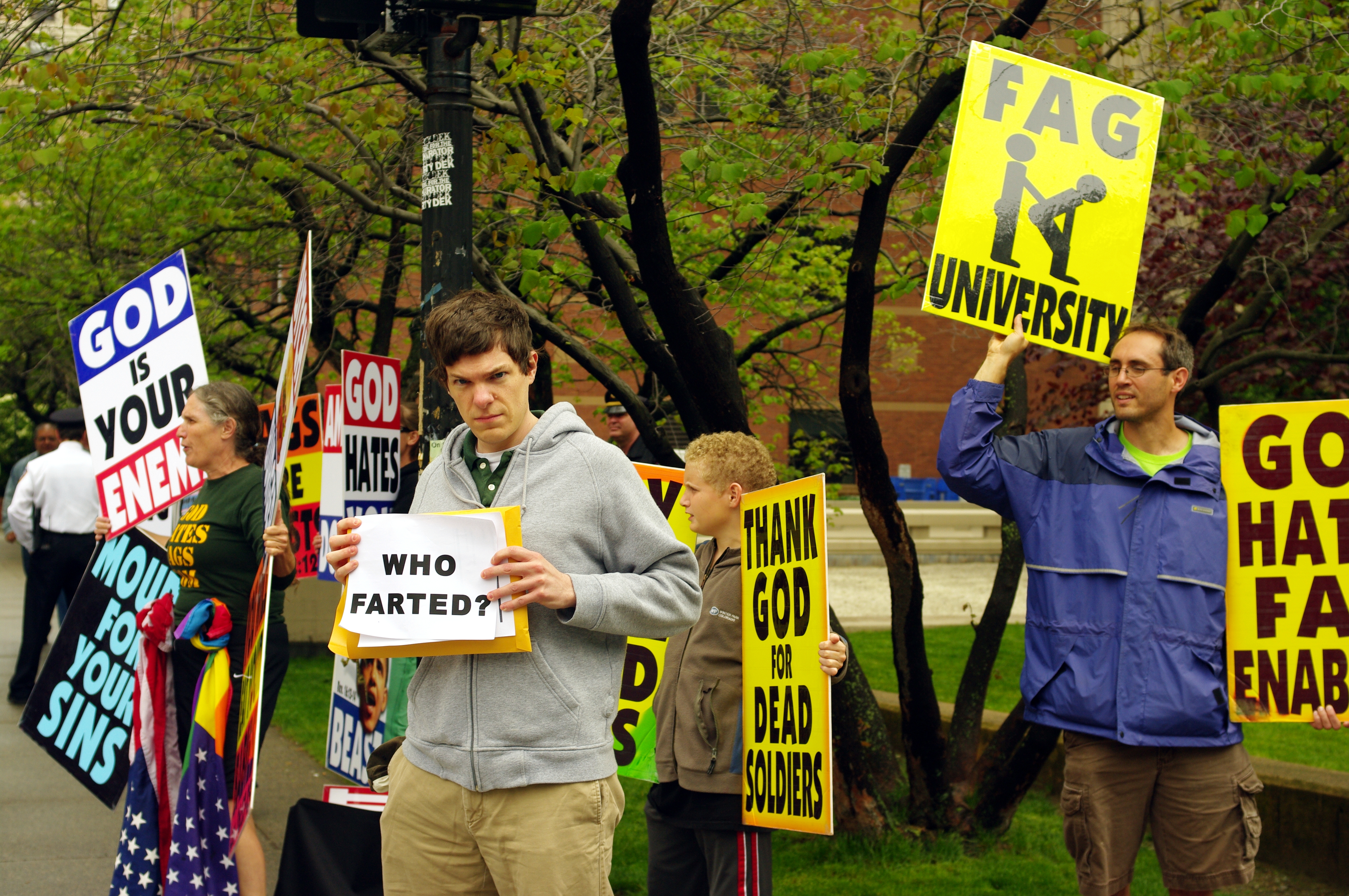 Westboro Baptist Church Absurdist Counter-Protestor May 2009